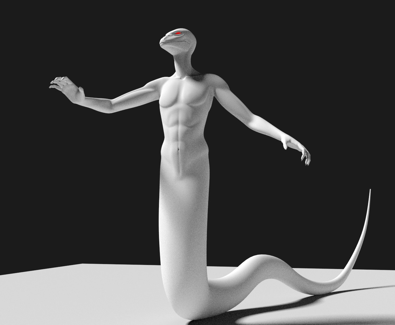 Yan-ti, 3D-art